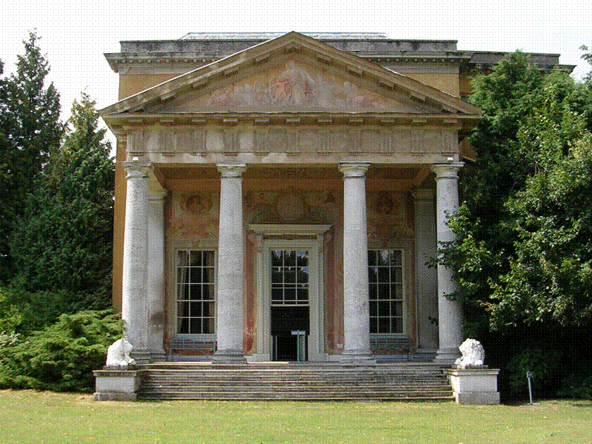 West Wycombe Park, Buckinghamshire, England. Photographed by uploader (August 2006) who releases all rights to public domain